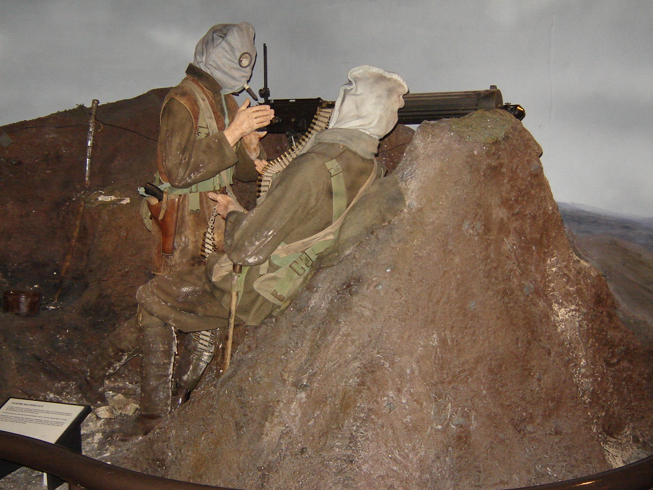 internal photographs of the national army museum